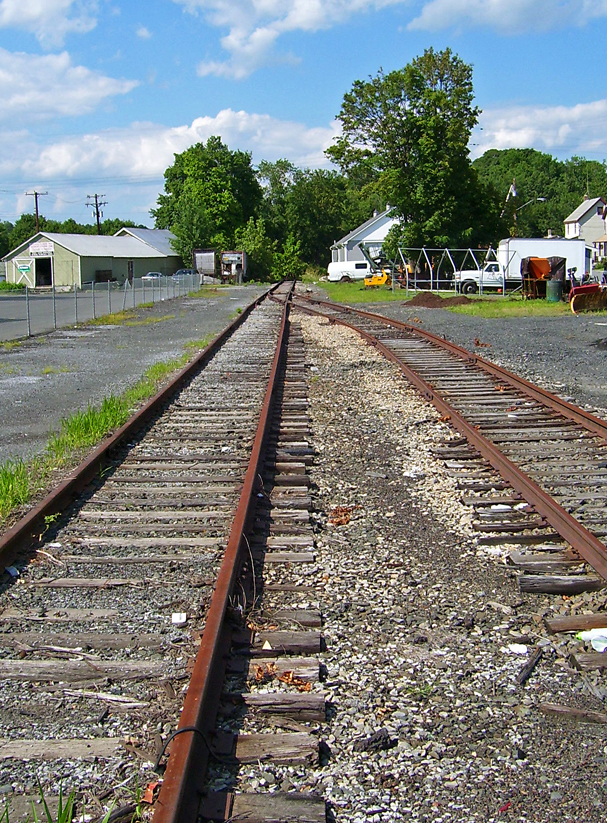 End of remaining Wallkill Valley Railroad spur in Walden, NY